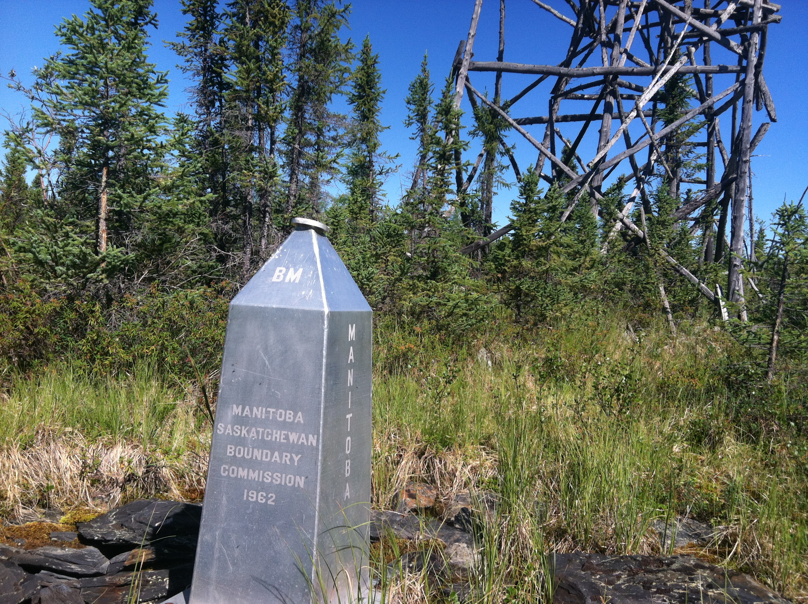 The obelisk monument marking the intersection of Manitoba, Saskatchewan, Northwest Territories, and hypothetically Nunavut. The face reading "Manitoba Saskatchewan Boundary Commission 1962", faces the Manitoba-Saskatchewan border to the south, and the wooden structure in the background is in the Northwest Territories, and theoretically Nunavut.